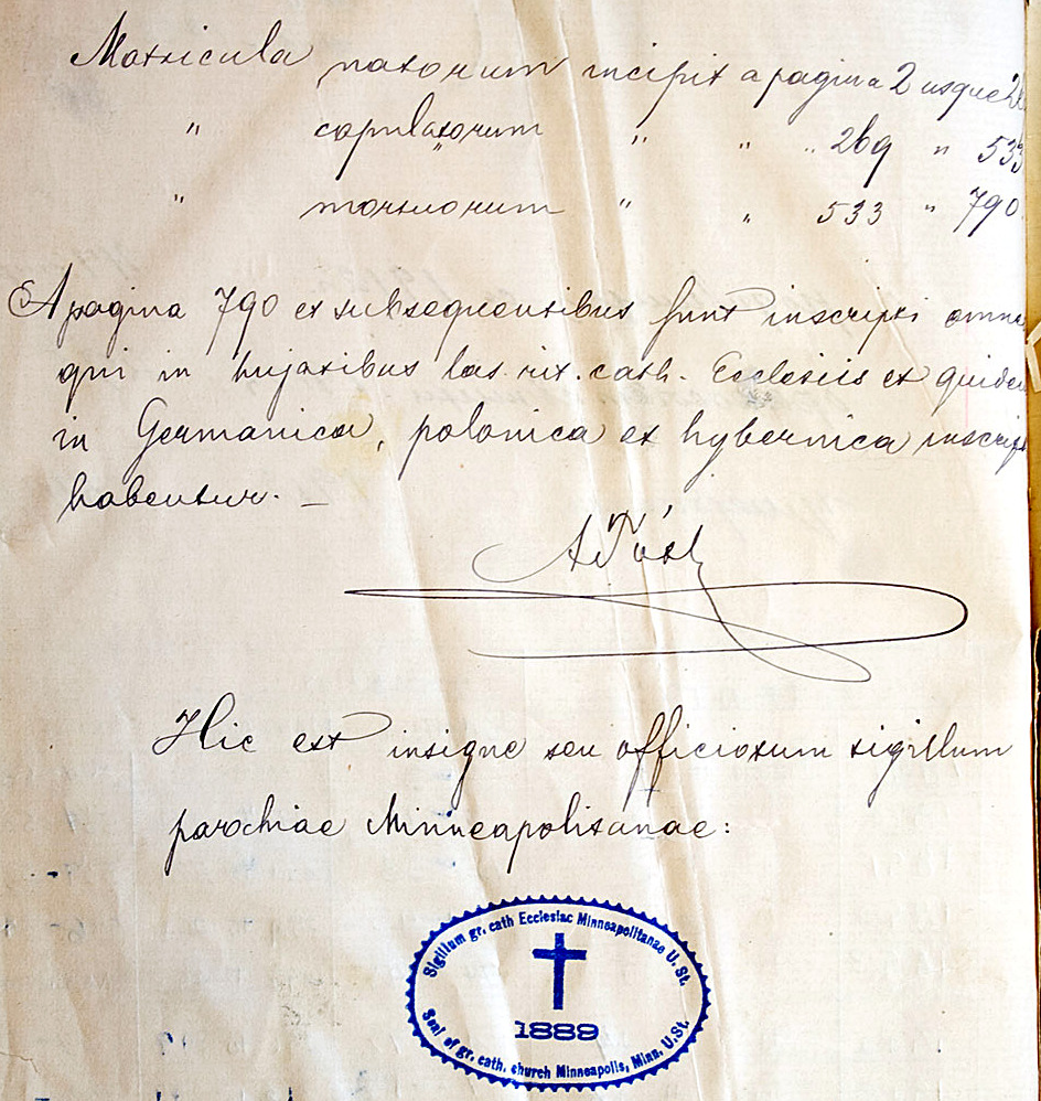 Autograph of Saint Alexis Toth